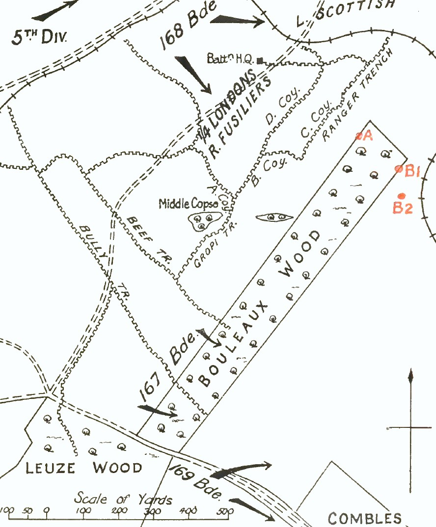 Diagram of 56th Division attack on Bouleaux Wood, Battle of Morval, 25 September 1916